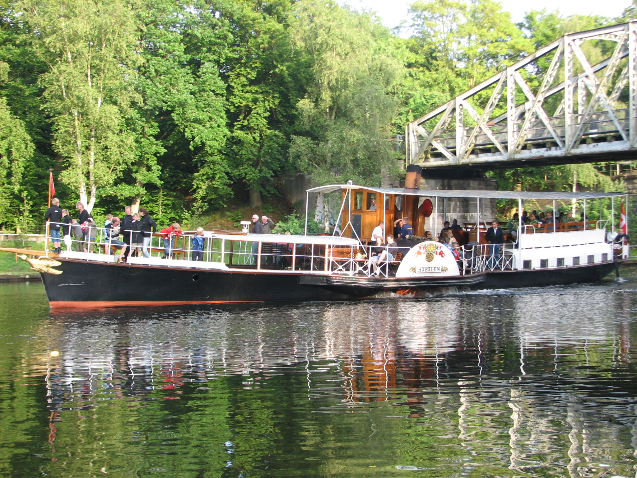 Hjejlen under a bridge in Silkeborg